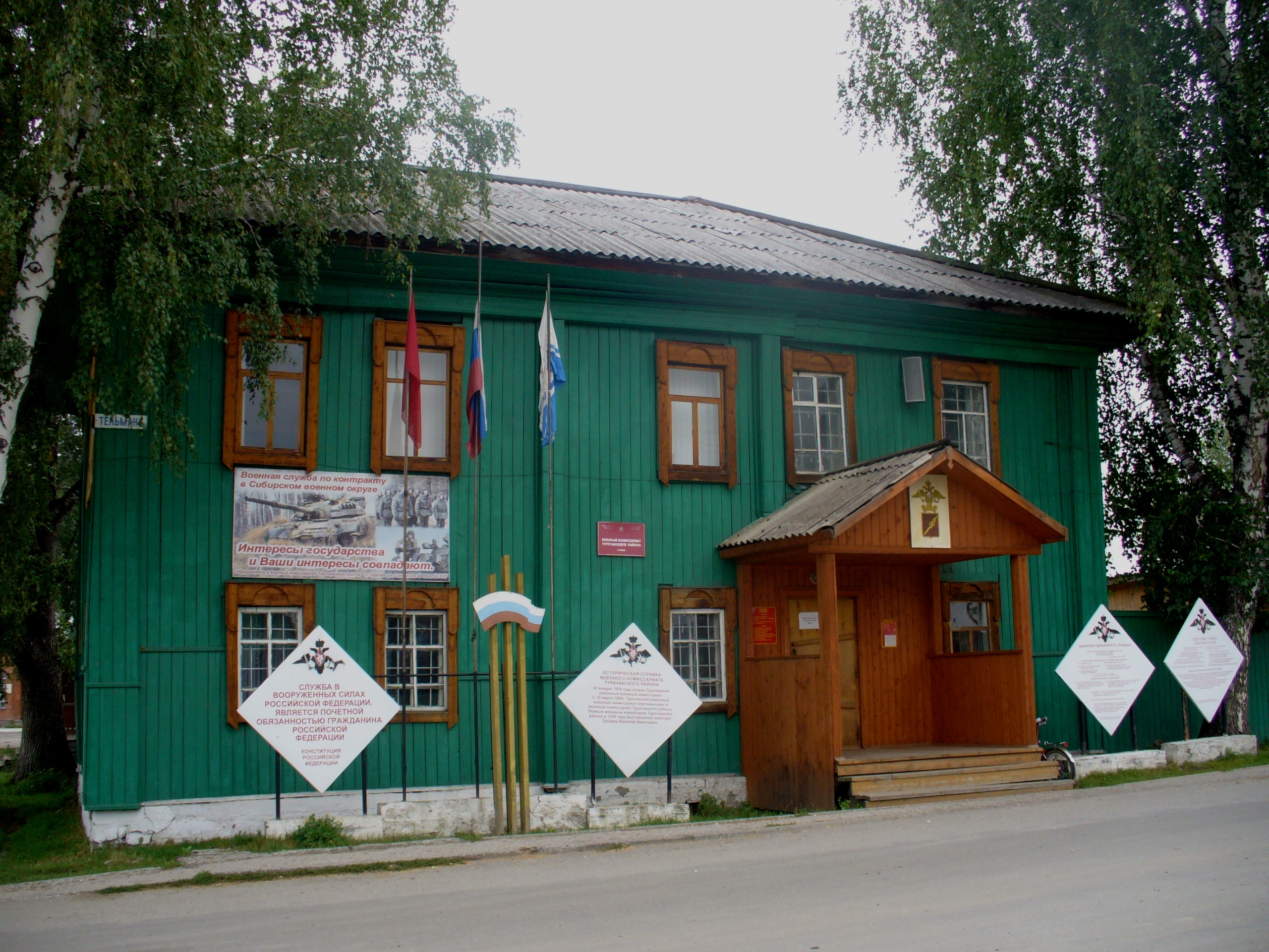 military commissariat in Turochak, Turochaksky District, Altai Republic, Russia